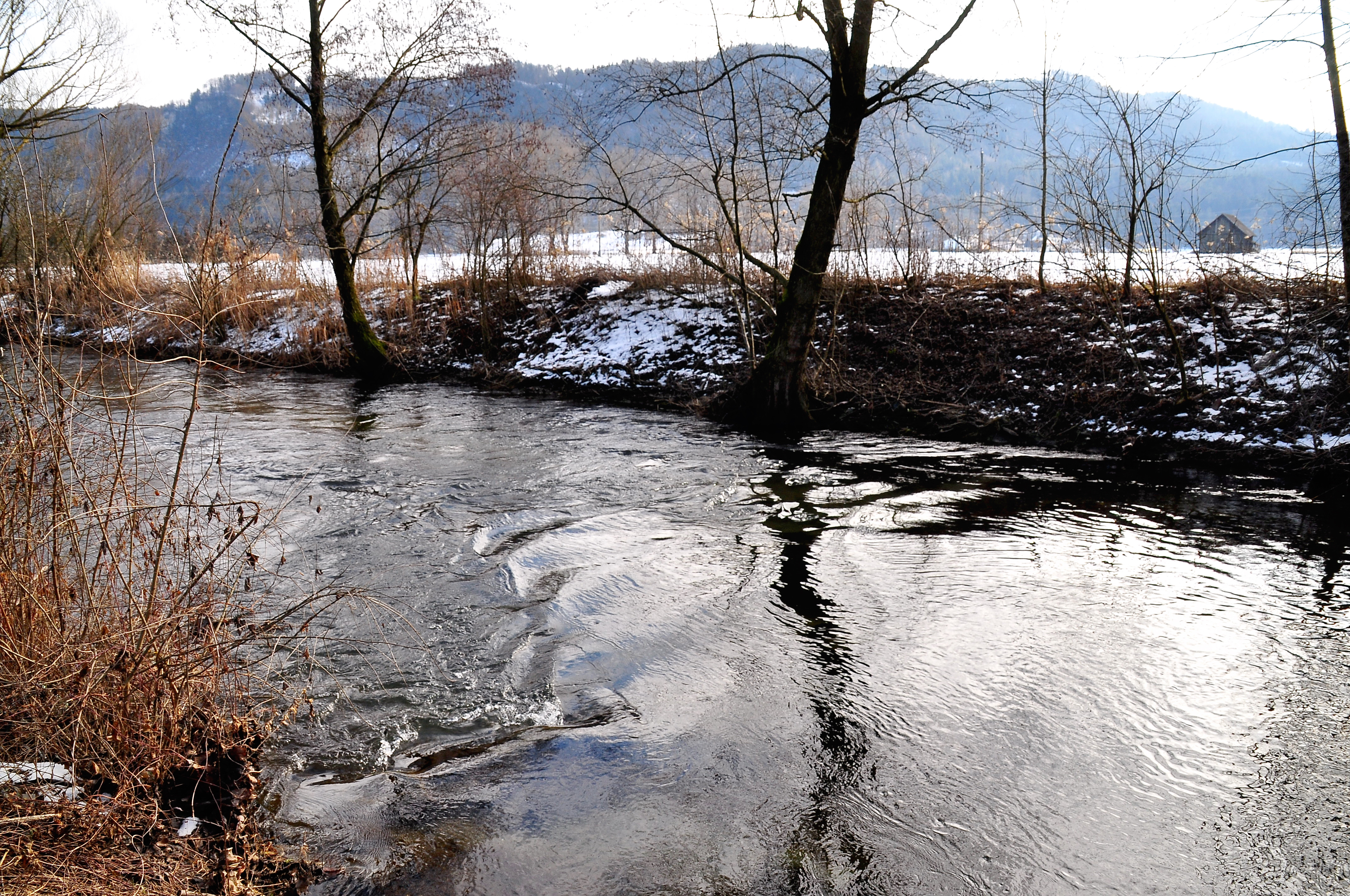 River Glanfurt near the closed down paper mill “Josef Weinländer” in the 11th district "Sankt Ruprecht" of the Carinthian capital Klagenfurt, Carinthia, Austria